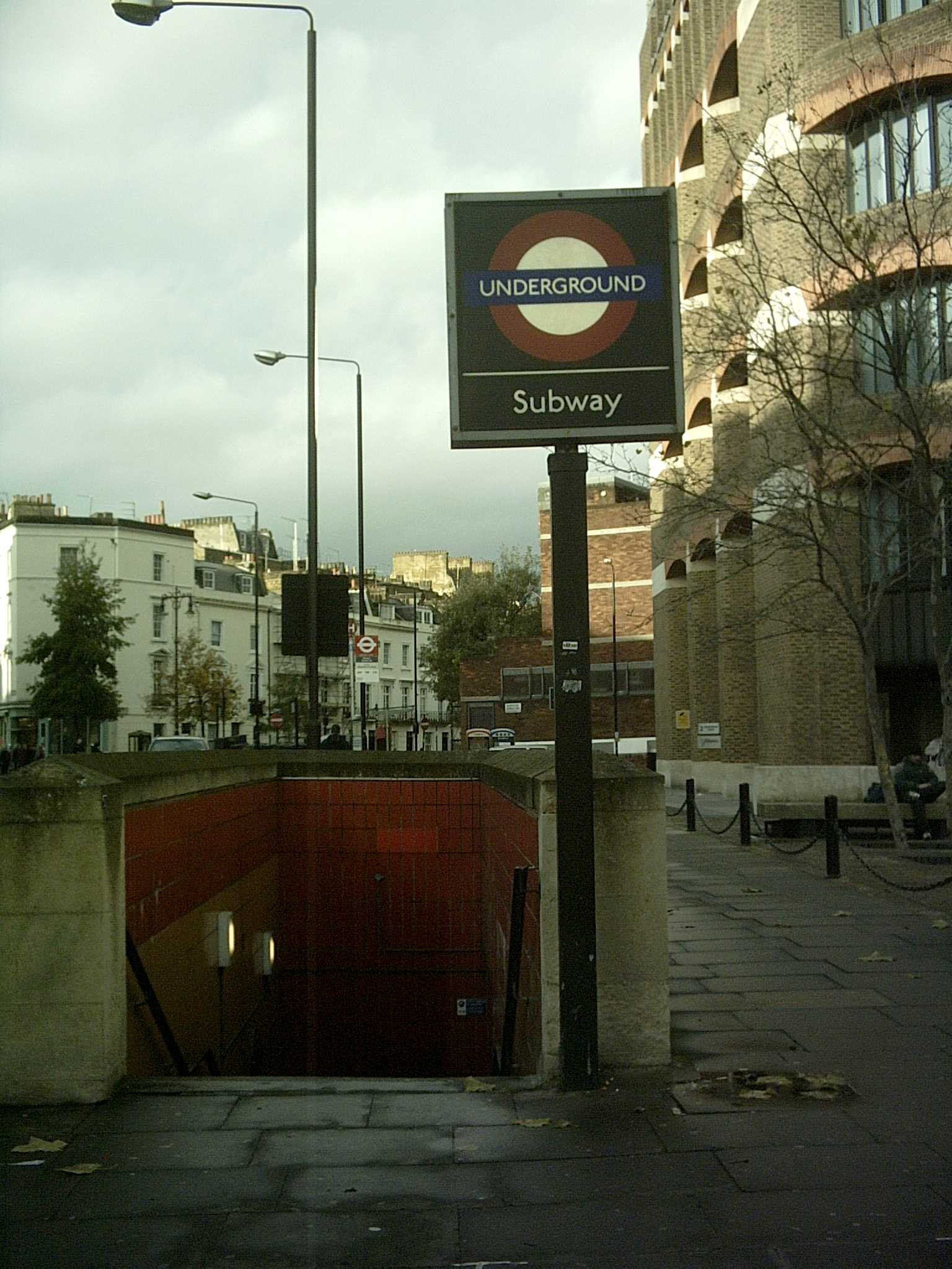 Pimlico Station (Drummond gate entrance) - taken by me, 9:55am, Friday 2 December 2005; the building on the right is Bessborough (see Office for National Statistics) - Londoneye 14:46, 10 December 2005 (UTC)